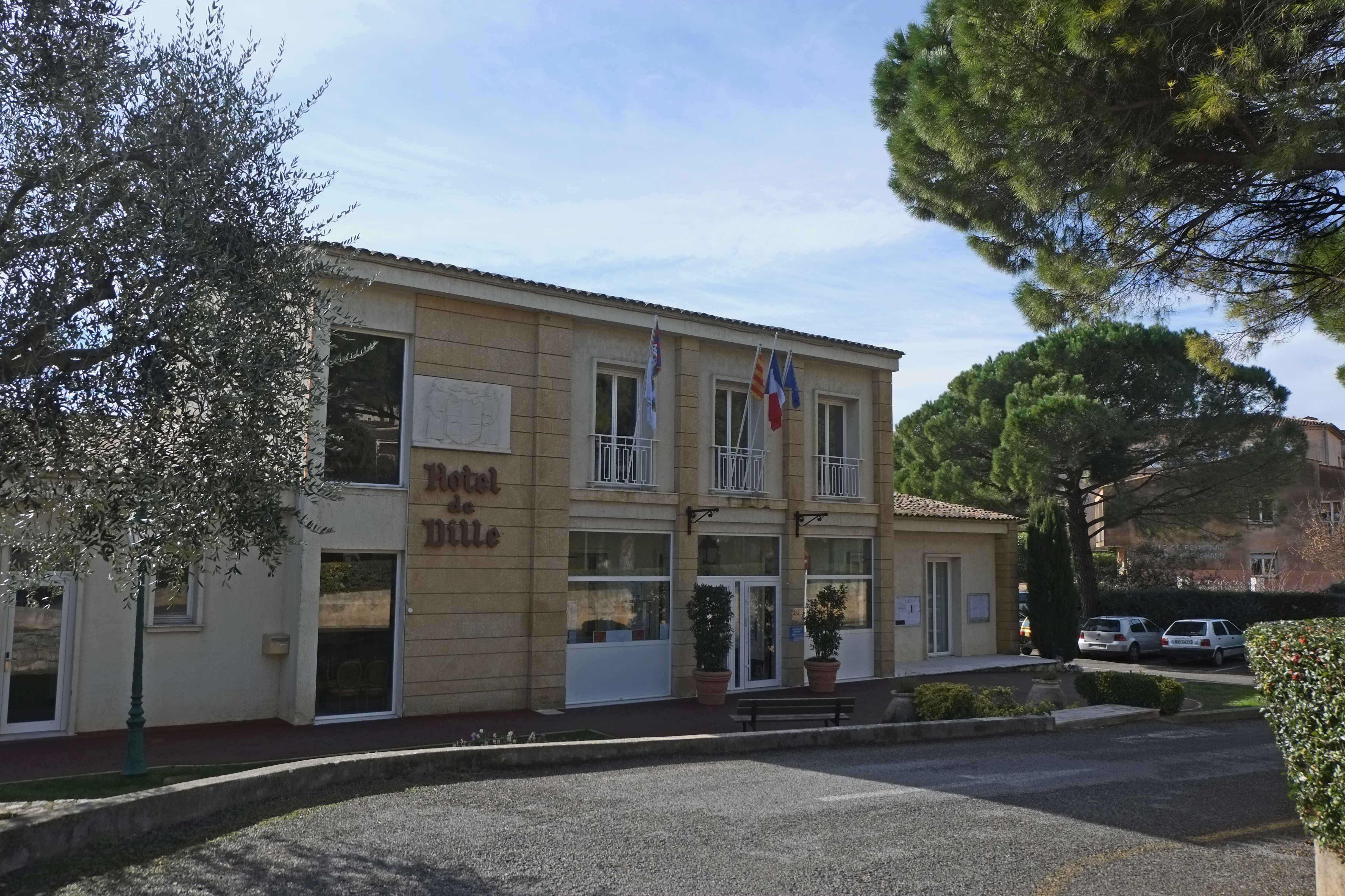 The town hall of Peymeinade